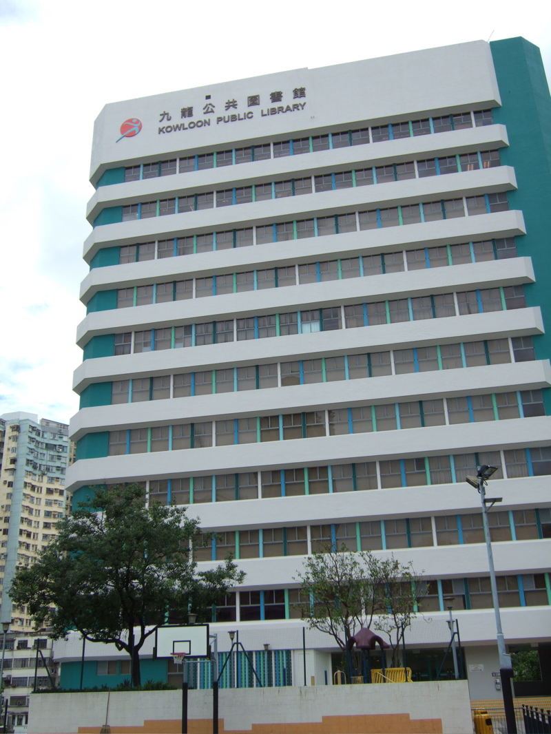 Kowloon Public Library at Pui Ching road, Ho Man Tin.